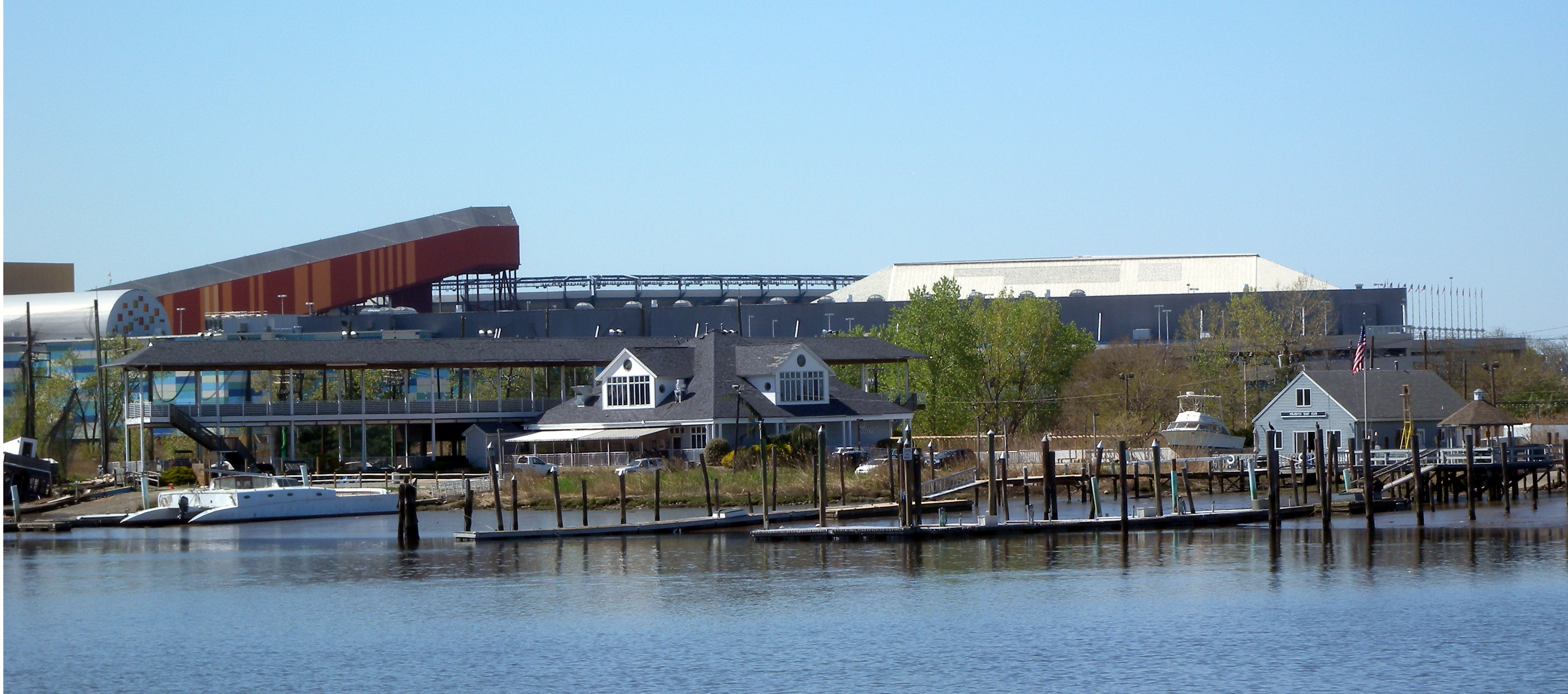 Looking west across the Hackensack River at docks east of Paterson Plank Road in East Rutherford, and stadiums beyond on a sunny midday.